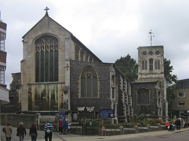 St Stephen's Church Grade I listed church, with parts dating from the 16th century. For listing particulars